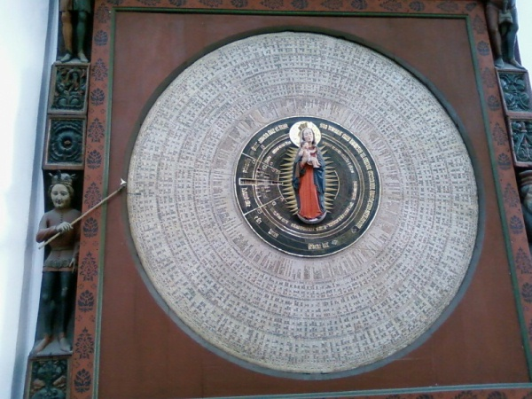 Part of the astronomical clock in the w: St. Mary's Church, Gdańsk